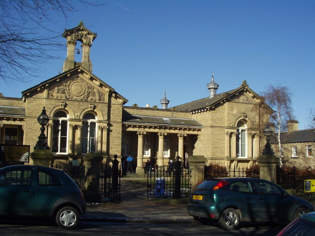 Shipley College, Saltaire. Part of Shipley College in Saltaire, opposite the Victoria Hall